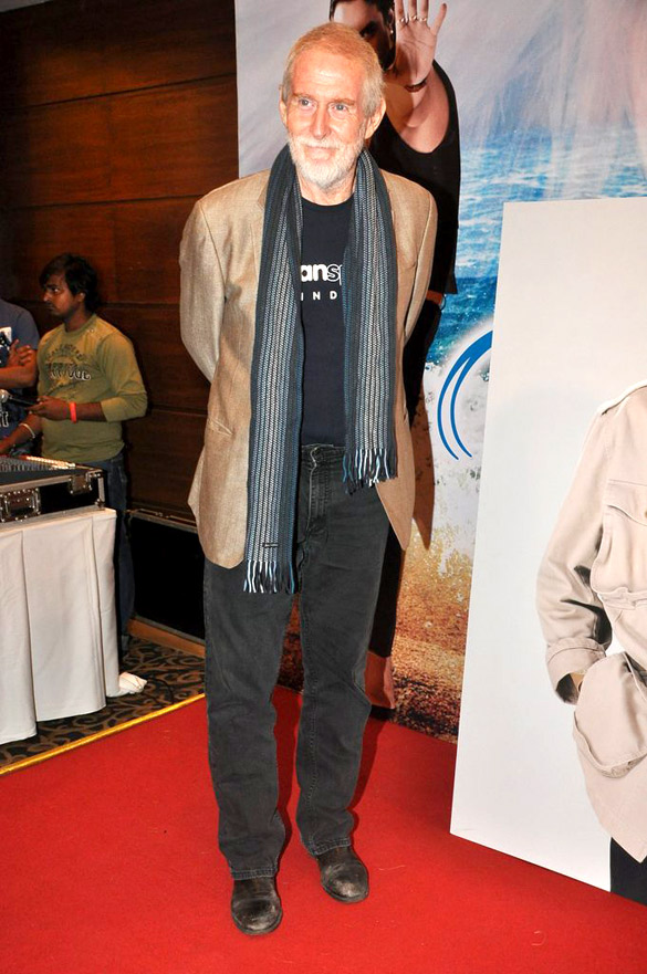 Tom Alter at Dev Anand's birthday celebrations